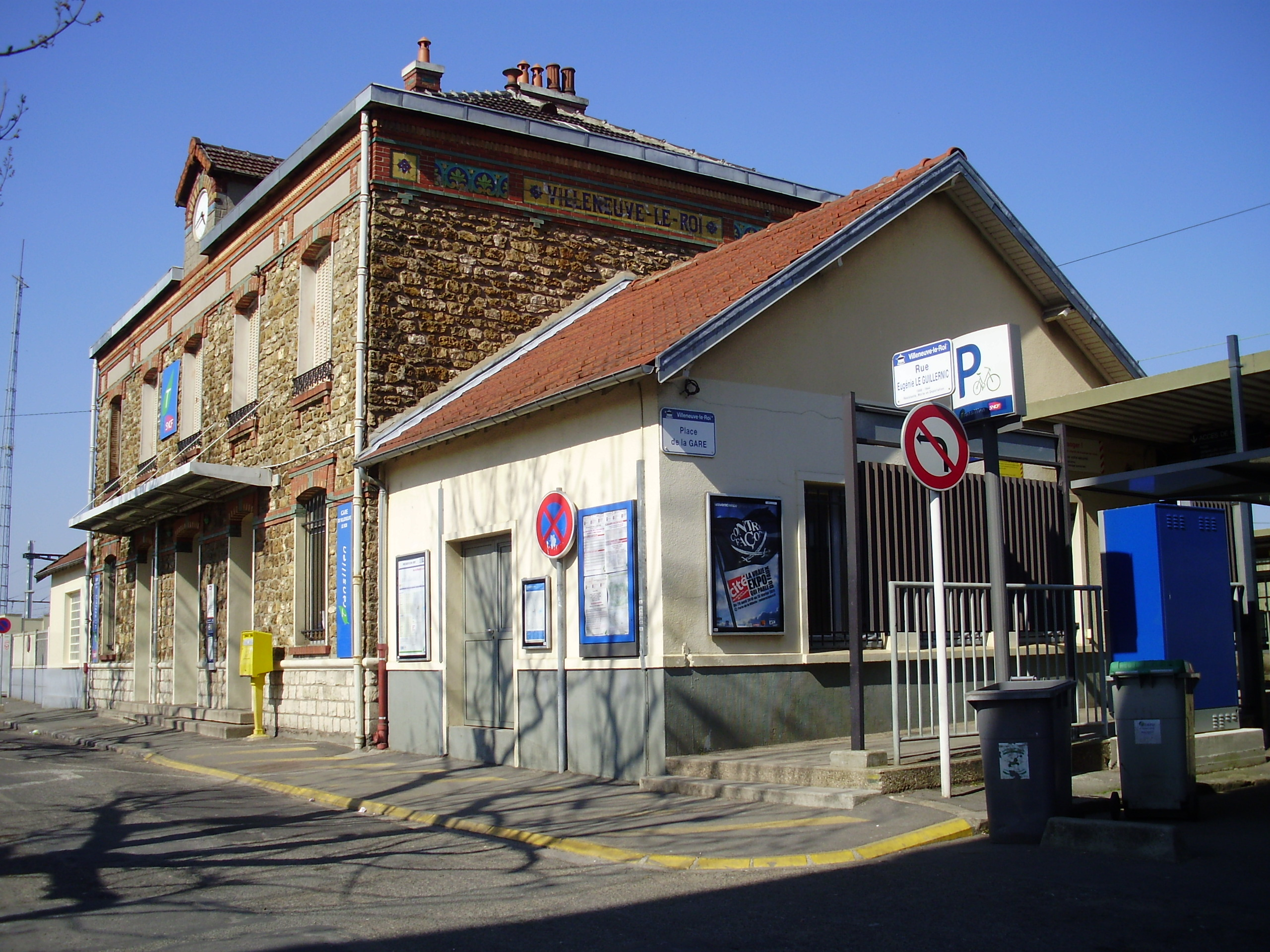 Building of the Villeneuve-le-Roi station, Val-de-Marne, France